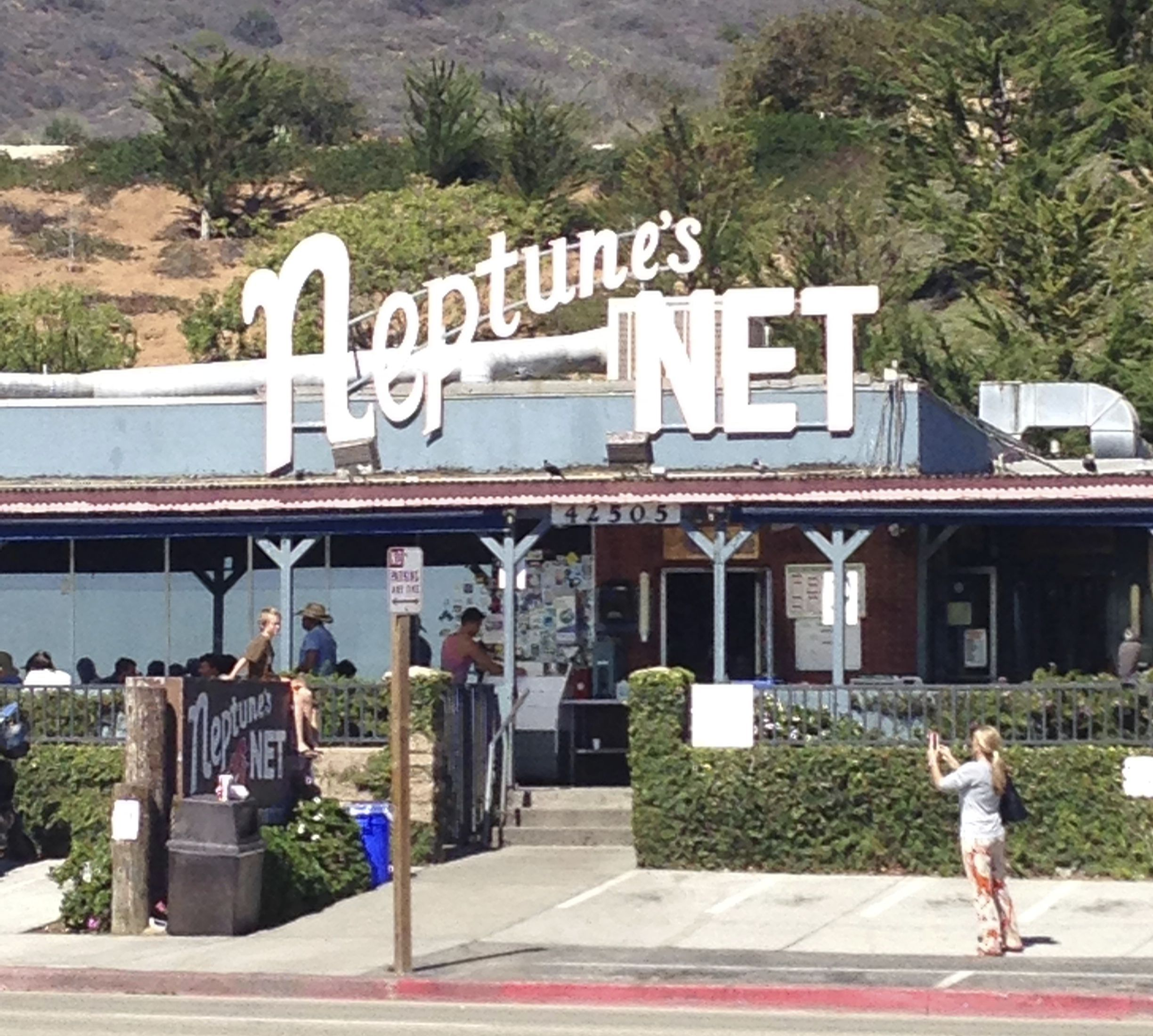 Neptune's Nest